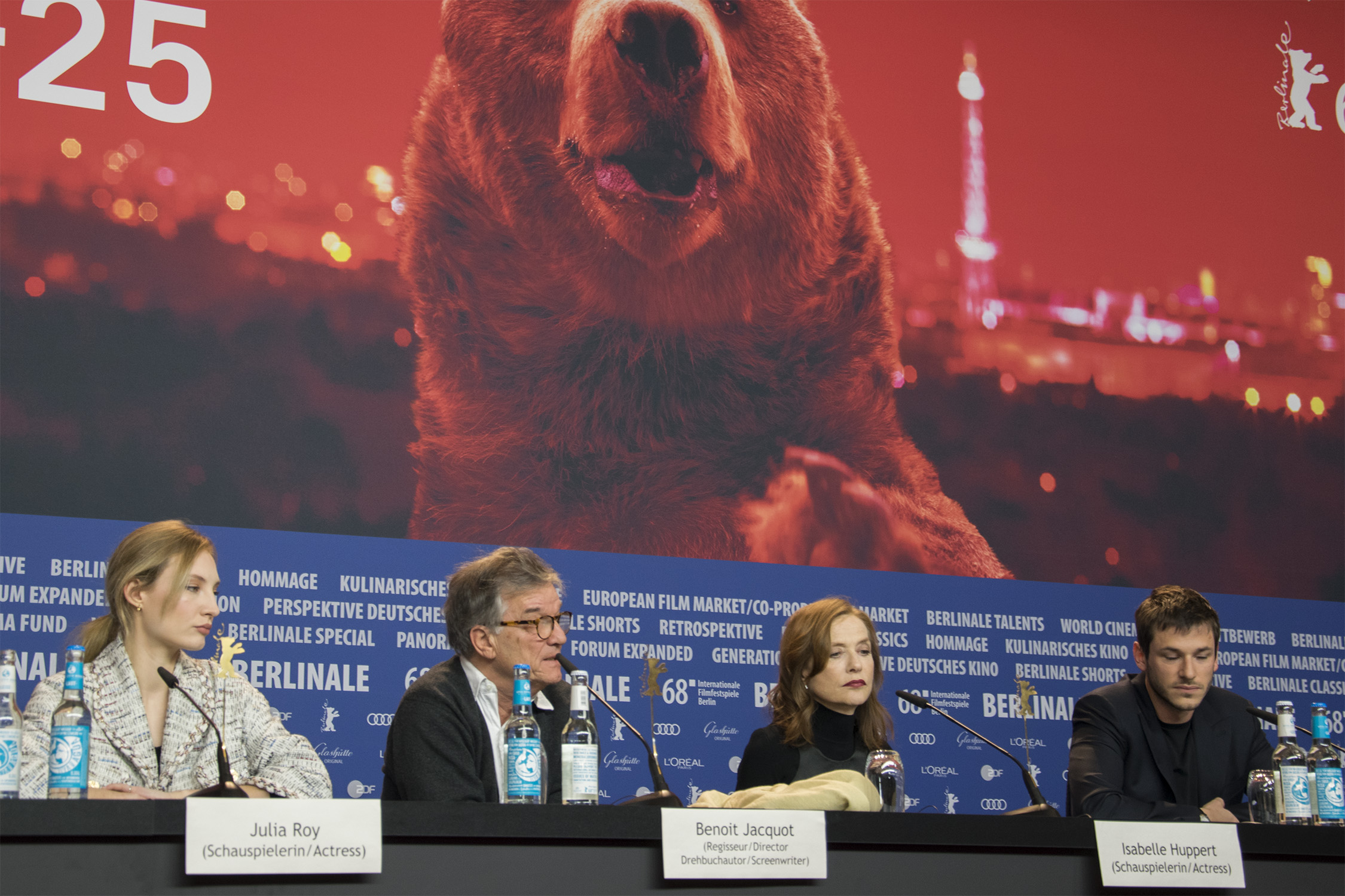 Press conference of Eva at Berlinale 2018. Julia Roy, Benoit Jacquot, Isabelle Huppert, Gaspard Ulliel.